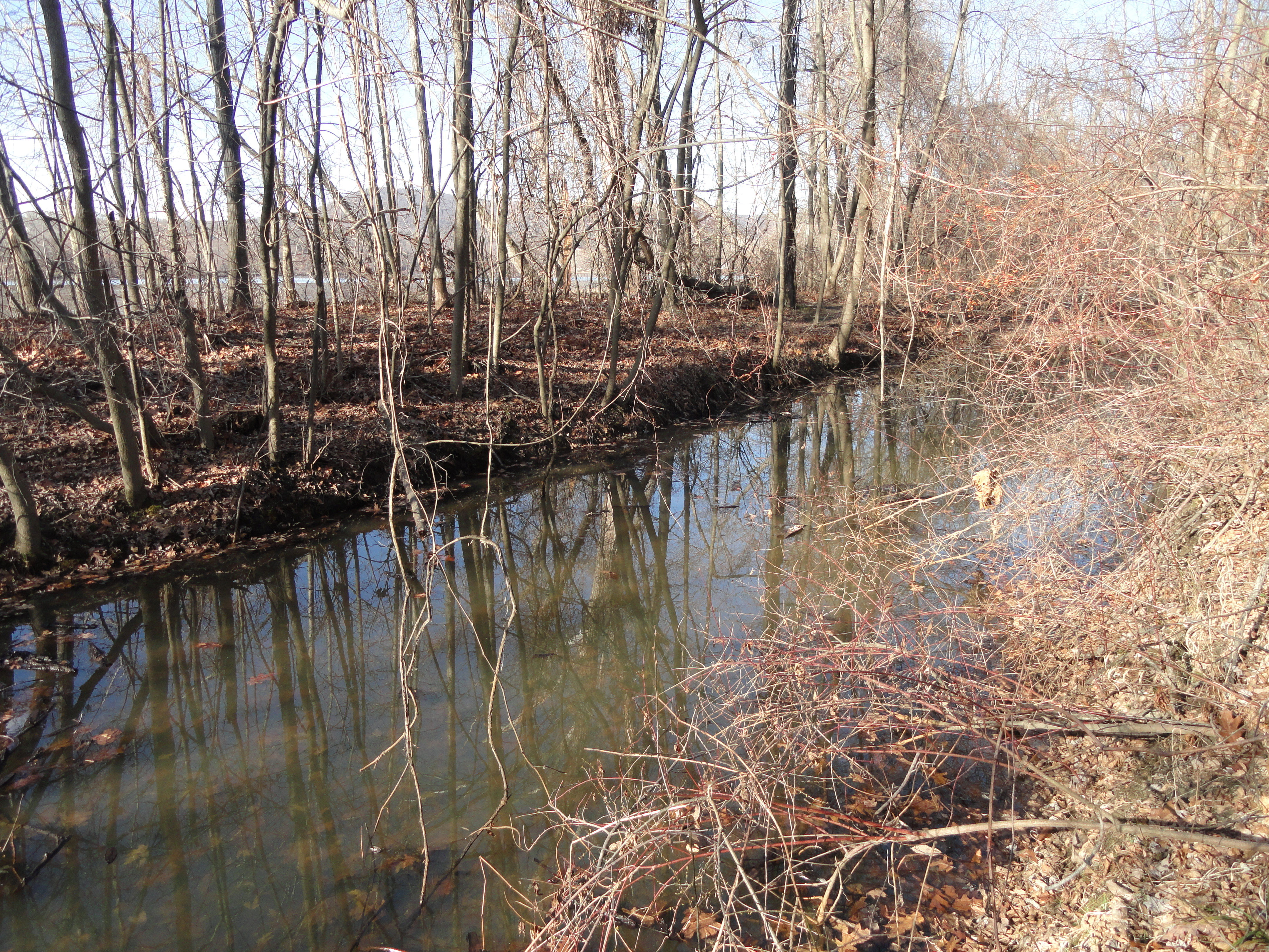 Hadley Falls Canal Park, South Hadley, Massachusetts, USA. This park contains the remains of the South Hadley Canal, said to be the earliest navigable canal in the United States, with operation commencing in 1795. It is listed on the National Register of Historic Places as the South Hadley Canal Historic District.